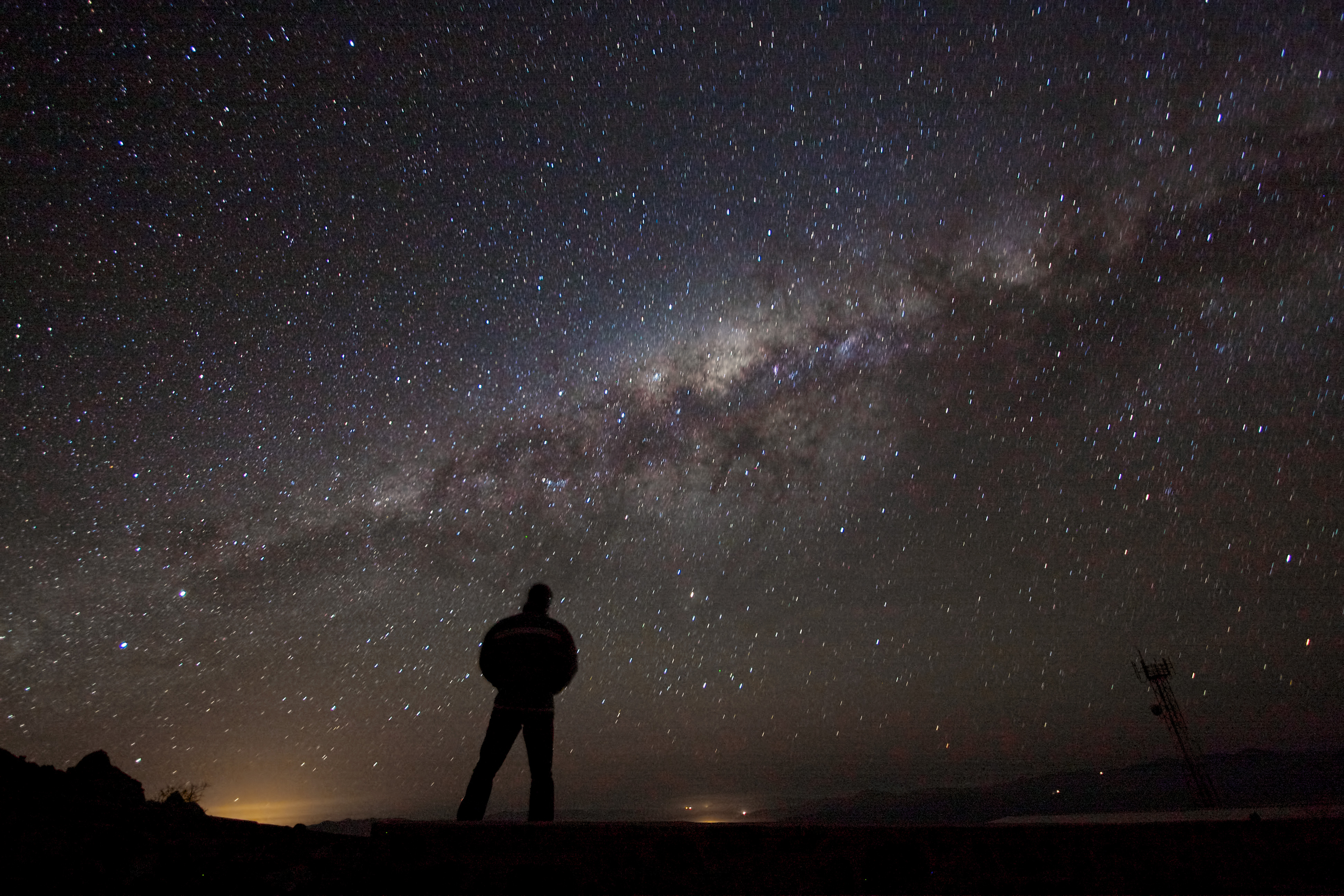 It is difficult for even the most seasoned astronomer to resist taking time out of a busy observing schedule to stop and stare up at the gloriously rich southern sky. This image is a self portrait taken by astronomer Alan Fitzsimmons, who took this photo between observing sessions at ESO’s La Silla Observatory. This bold photo shows the contrast between a simple, still and dark figure on Earth and the brilliant and bright starry night sky. In this picture, the sky is dominated by the enormous splash of stars and dust which make up the centre of the Milky Way, our home galaxy. ESO’s observatories are located in the Atacama Desert in northern Chile, a region with very few inhabitants, which combines very dark nights with extremely clear atmospheric conditions, both factors conducive to making high quality observations. La Silla is ESO’s first observatory. Inaugurated in 1969, it is home to a number of telescopes with mirror diameters of up to 3.6 metres. With more than 300 clear nights every year, La Silla is in an ideal position to house advanced observing instruments, but it also makes it a fabulous place to just stop and gaze up into the sky. Alan submitted this photograph to the Your ESO Pictures Flickr group. The Flickr group is regularly reviewed and the best photos are selected to be featured in our Picture of the Week series or in our picture gallery.